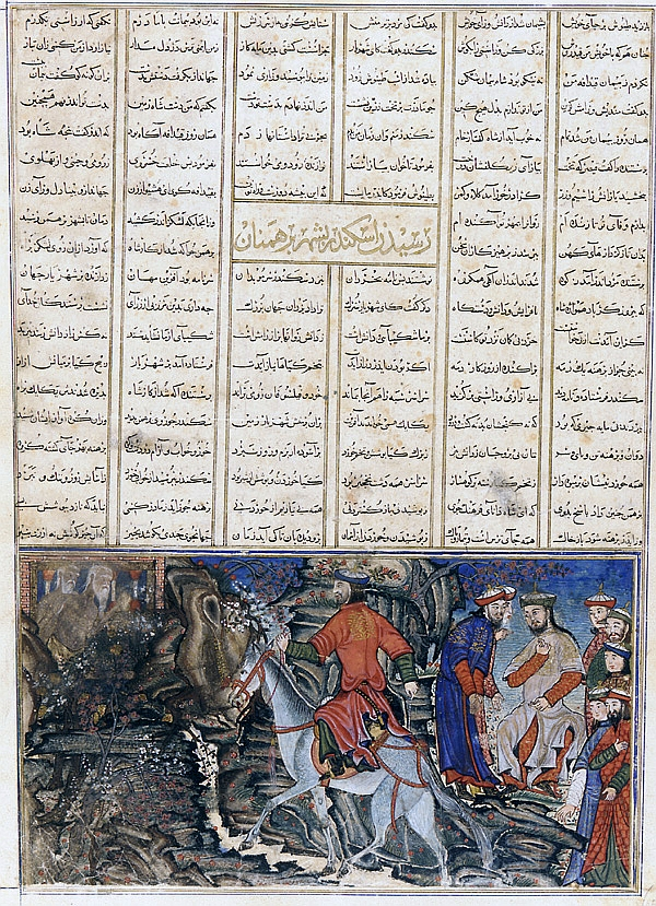 Alexander meets the Gymnosophists